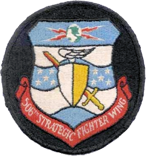 Emblem of the 506th Strategic Fighter Wing